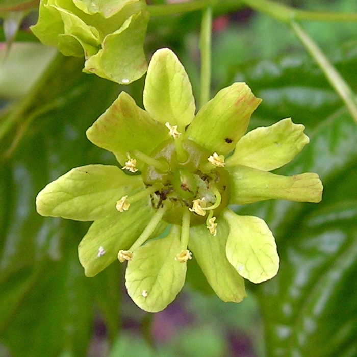 The flower of Acer platanoides. Moscow region, Russia.